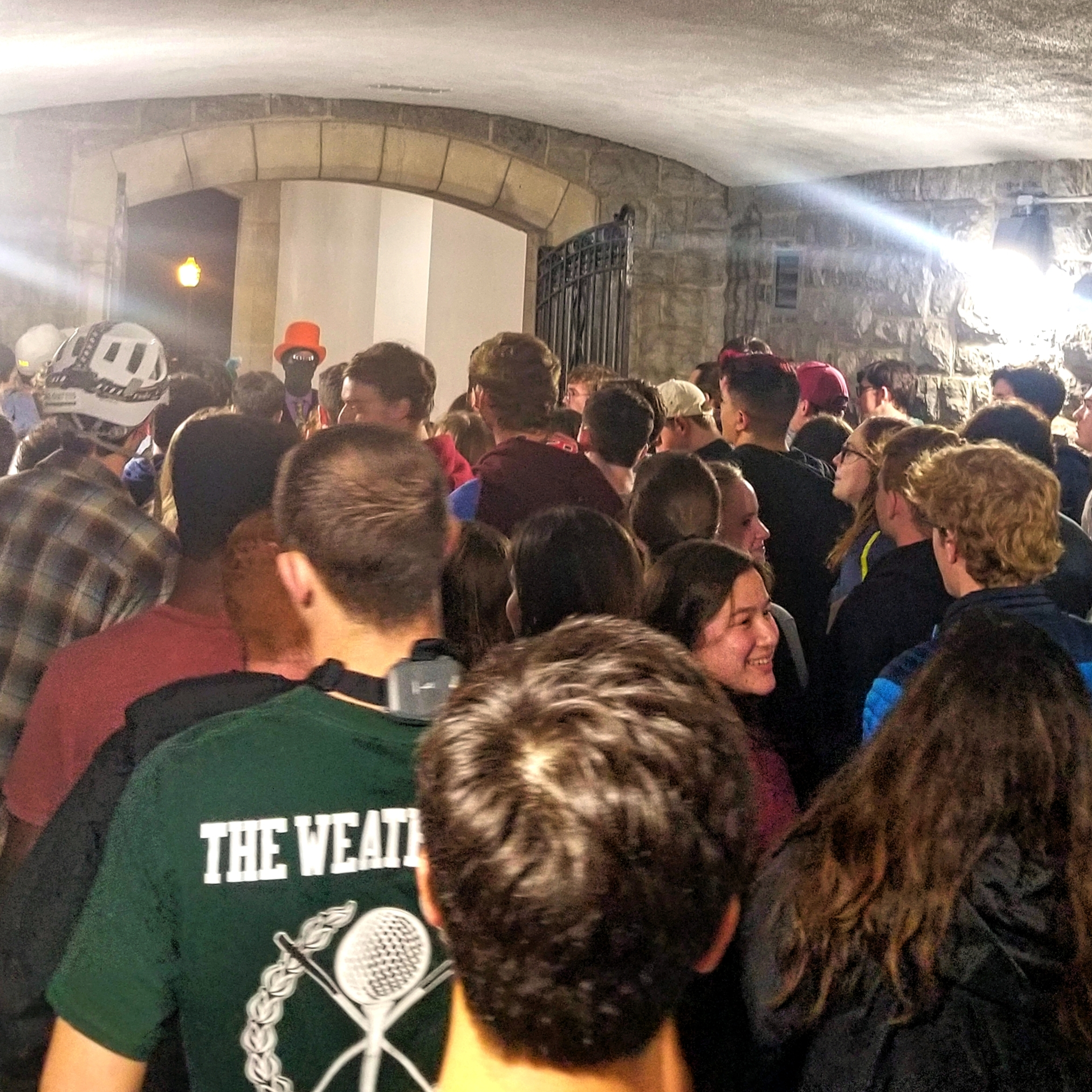 Rekam Eulc (orange tophat) places first clue in the Burruss Hall tunnel for 300+ attendees. Photo taken 12:00AM 8 April 2019